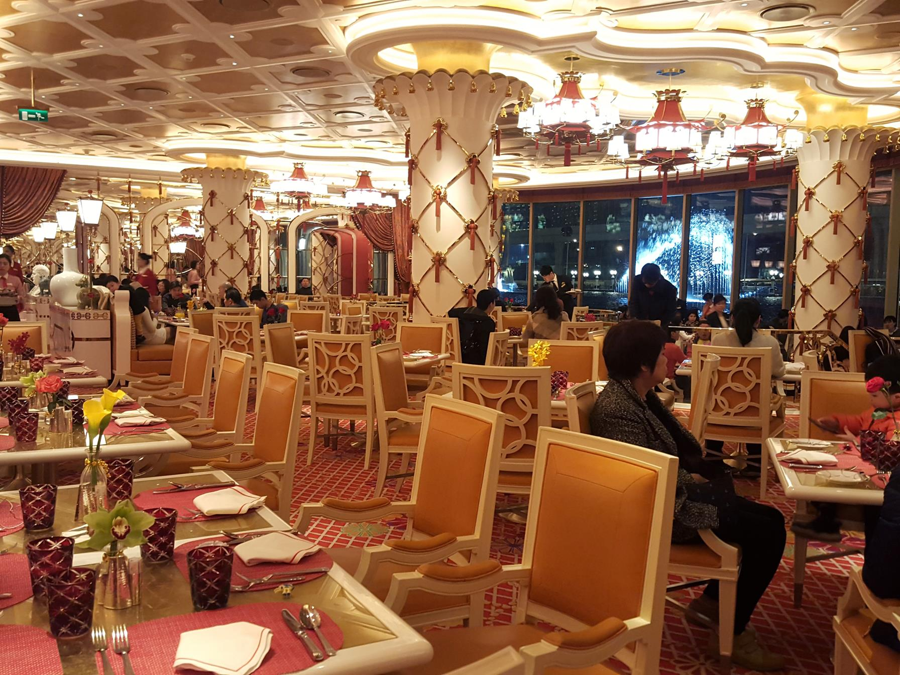 Wynn Palace, Cotai